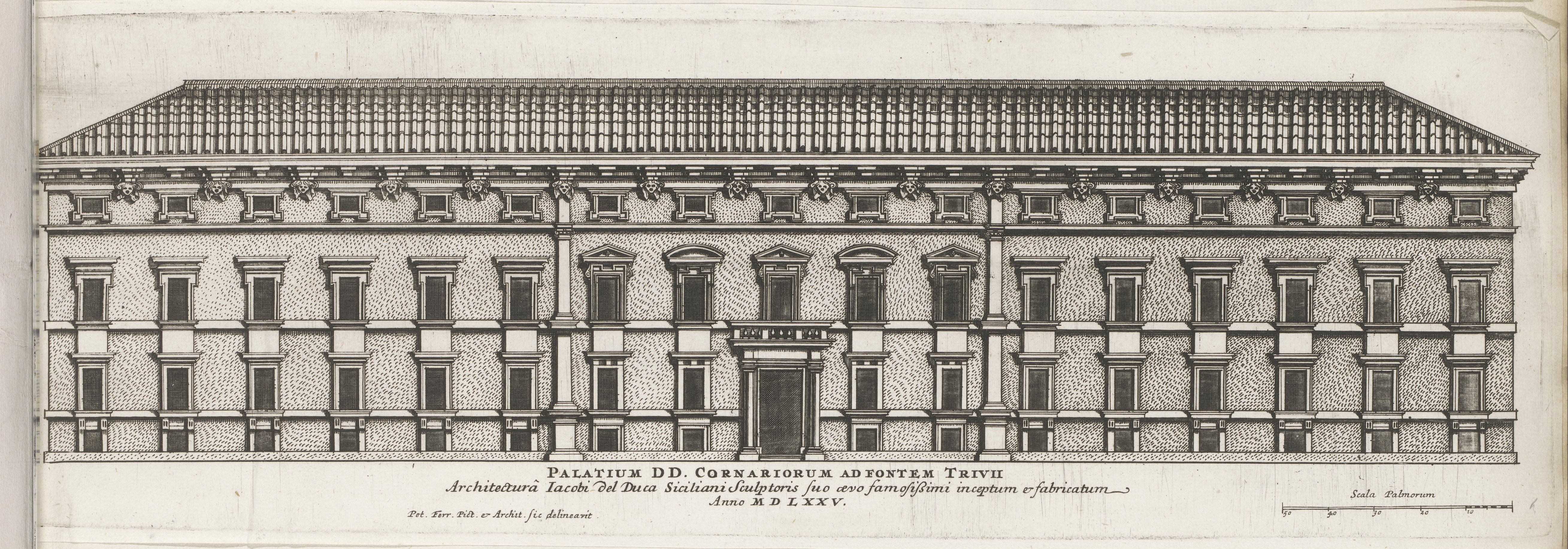 Palatium DD. Cornariorum ad Fontem Trivii by Giovanni Battista Falda (ca. 1655)